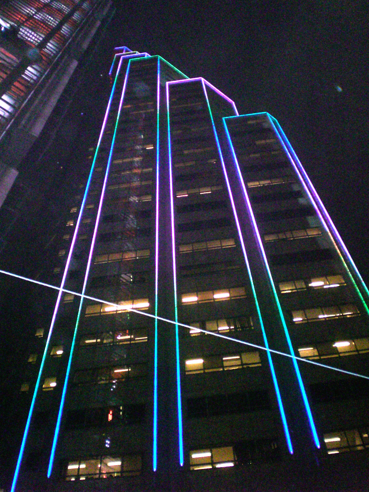 中環渣打銀行大廈